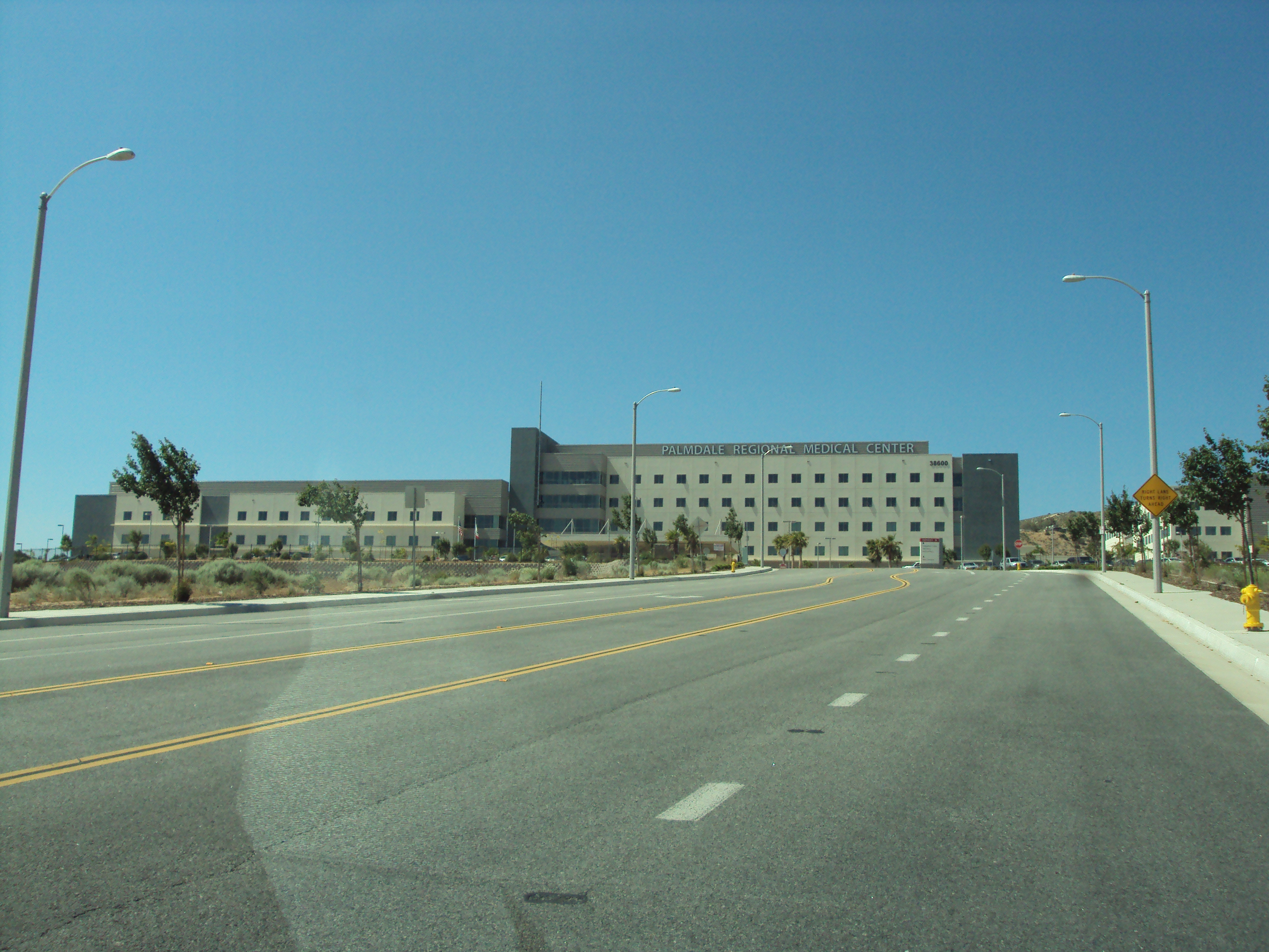 Landscape picture of the Palmdale Regional Medical Center for use in the article about the same.